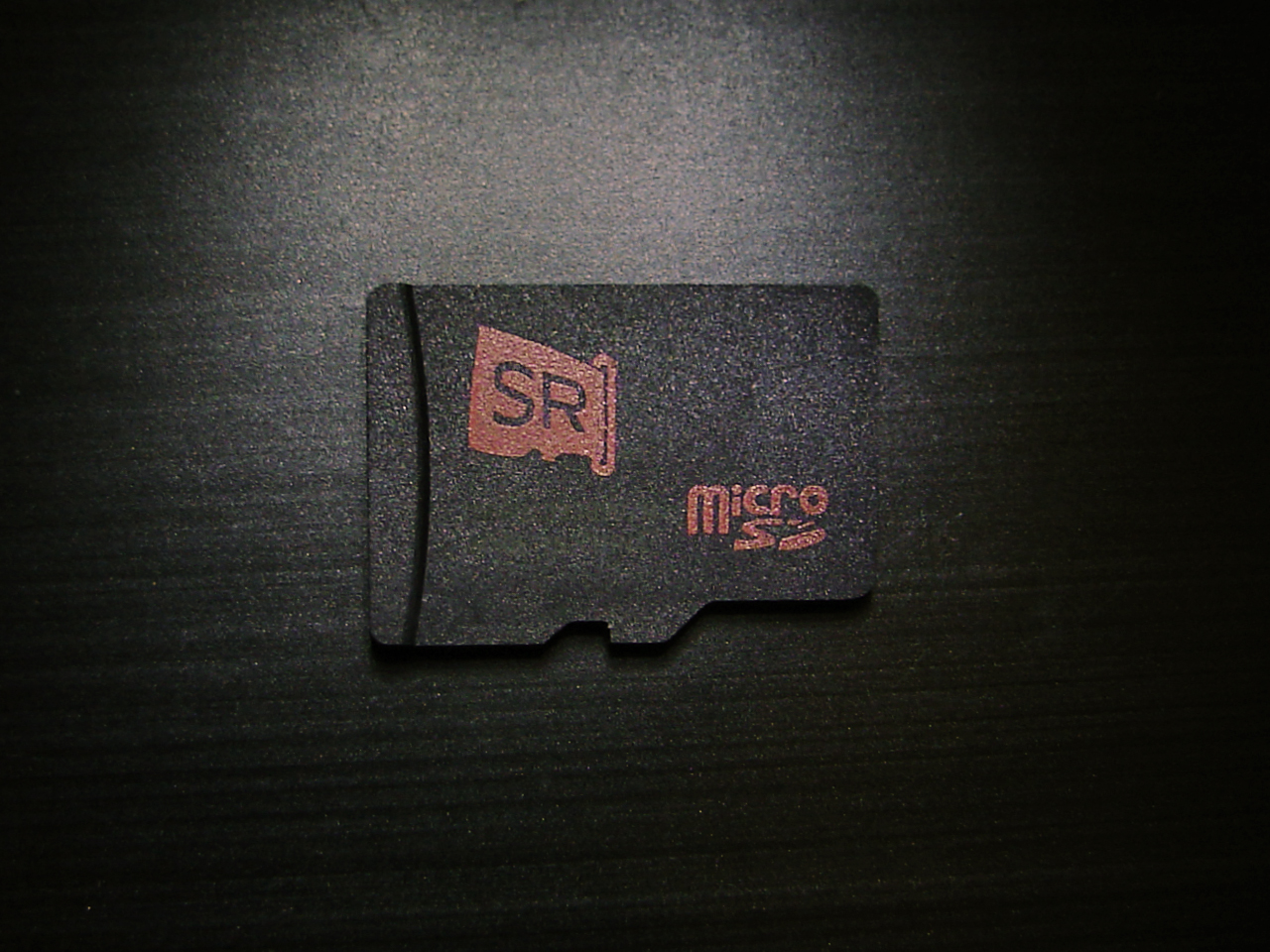 A generic slotMusic card.